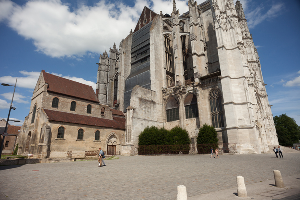 Cathédrale Saint-Pierre; Beauvais, Oise, Picardie, France; ; ref: PM_092514_F_Beauvais; ; Photographer: Paul M.R. Maeyaert; © Paul M.R. Maeyaert; ; Cultural heritage; Europeana; Europe/France/Beauvais